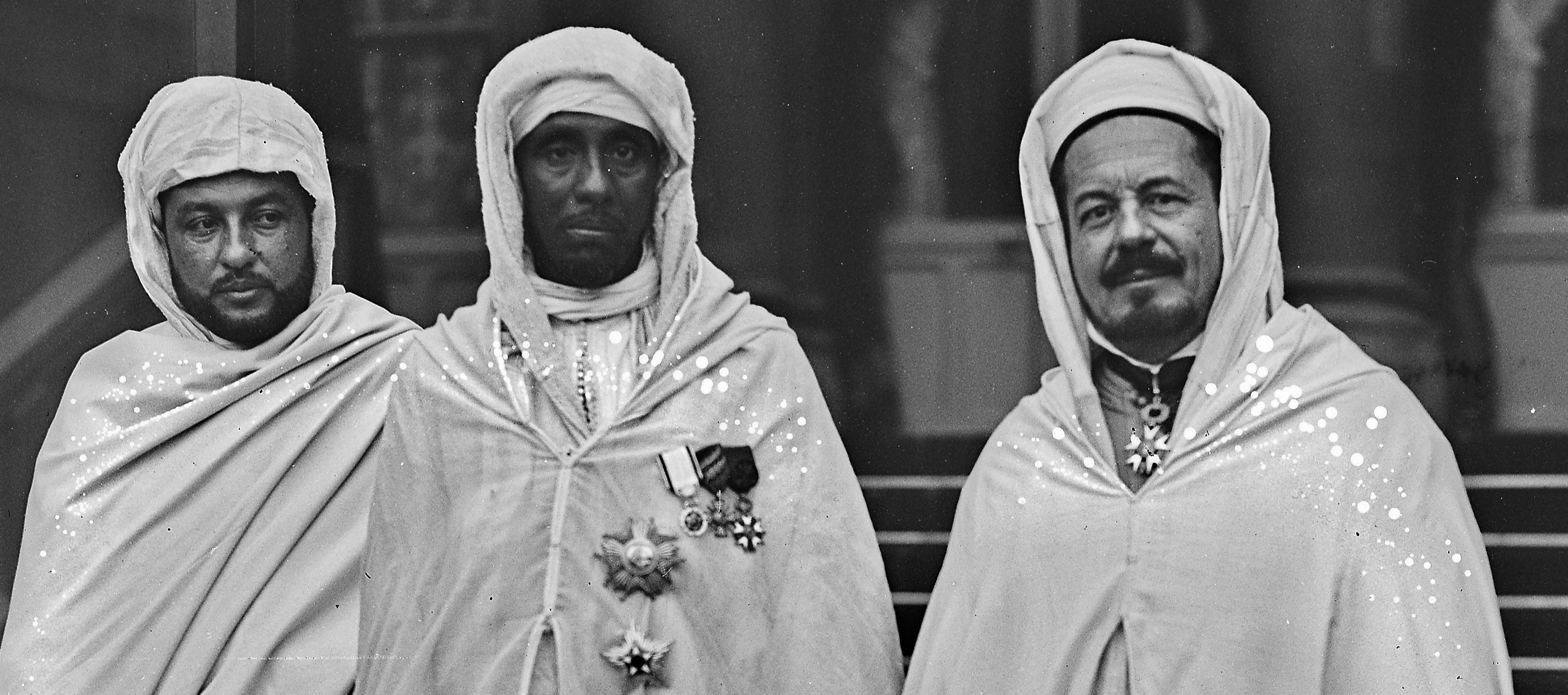 A press photo of the reception of Thami el-Glawi (center) and Abdelqader Bin Ghabrit (right) at the Élysée Palace in 1921, by Agence Rol